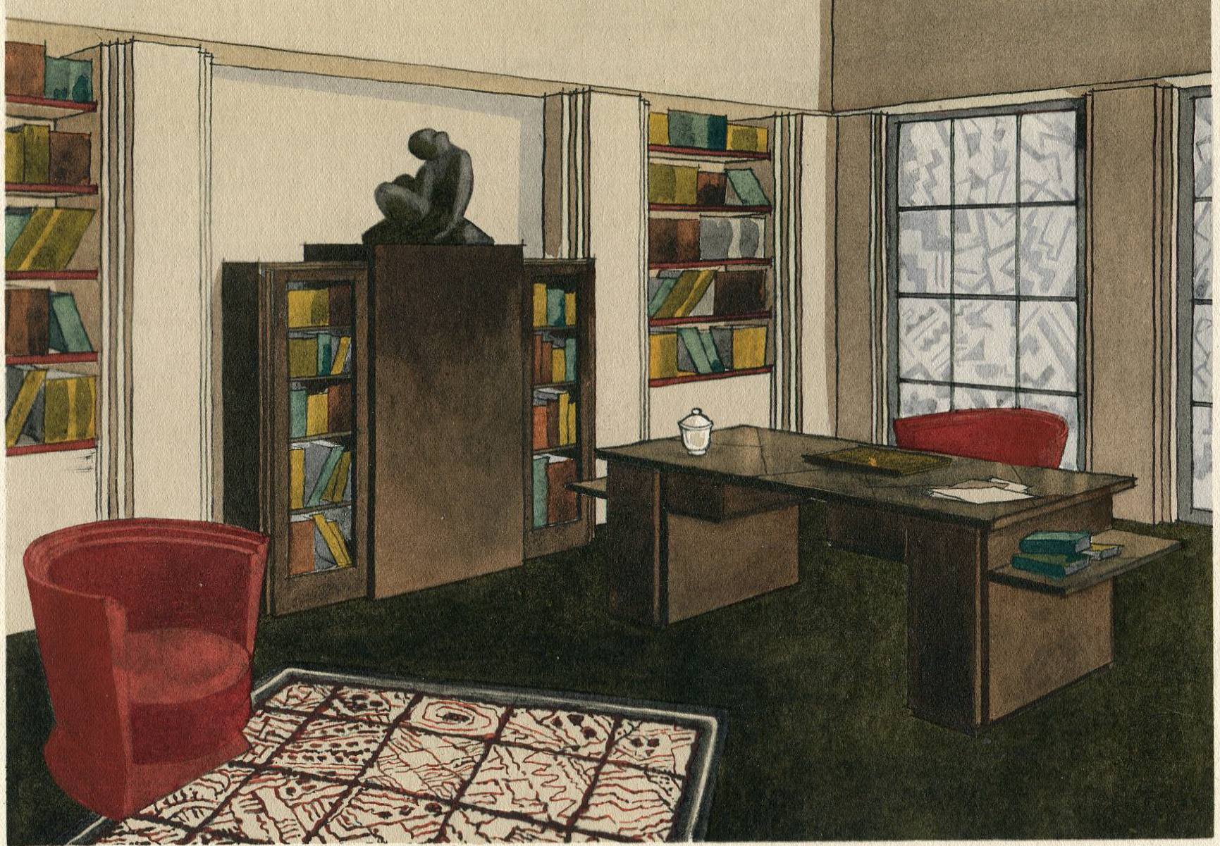 Guillemard Marcel, office-library, gouache project, Salon des Artistes Décorateurs, 1924